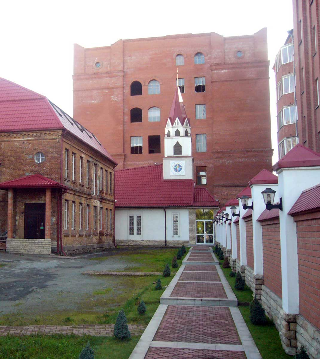 Rome-Catholic Church of st.Anna in Ekaterinburg